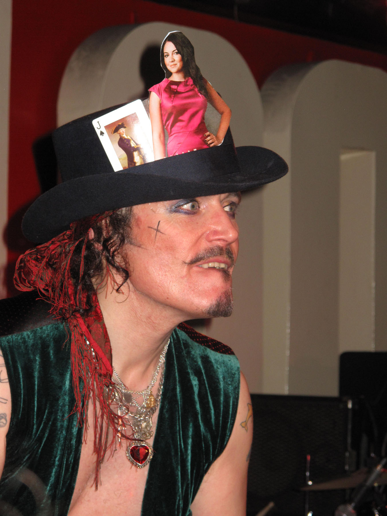 Adam Ant at The 100 Club, 27.01.11